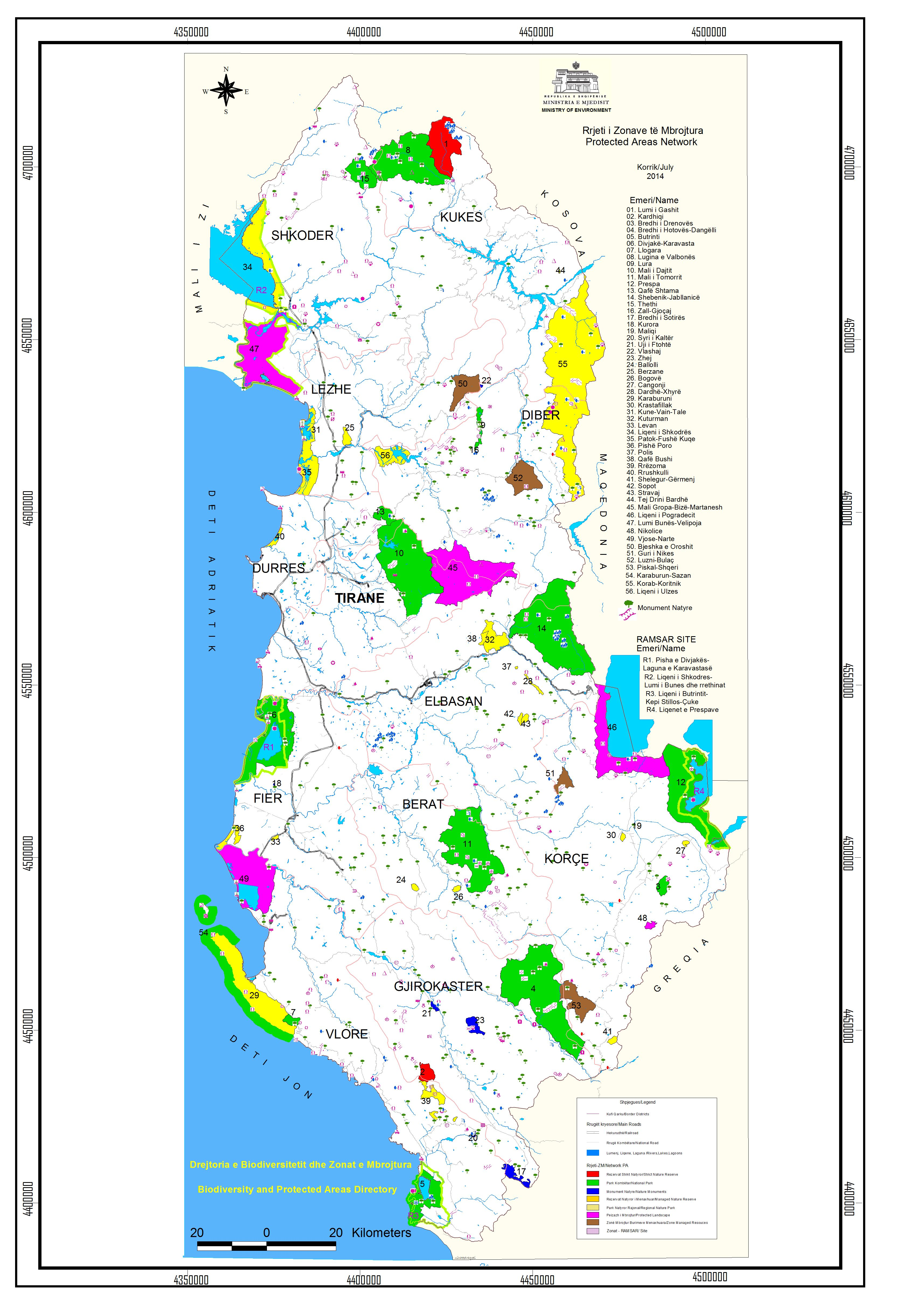 The network of protected areas of Albania as defined by the Ministry of the Environment, current as of October 2010